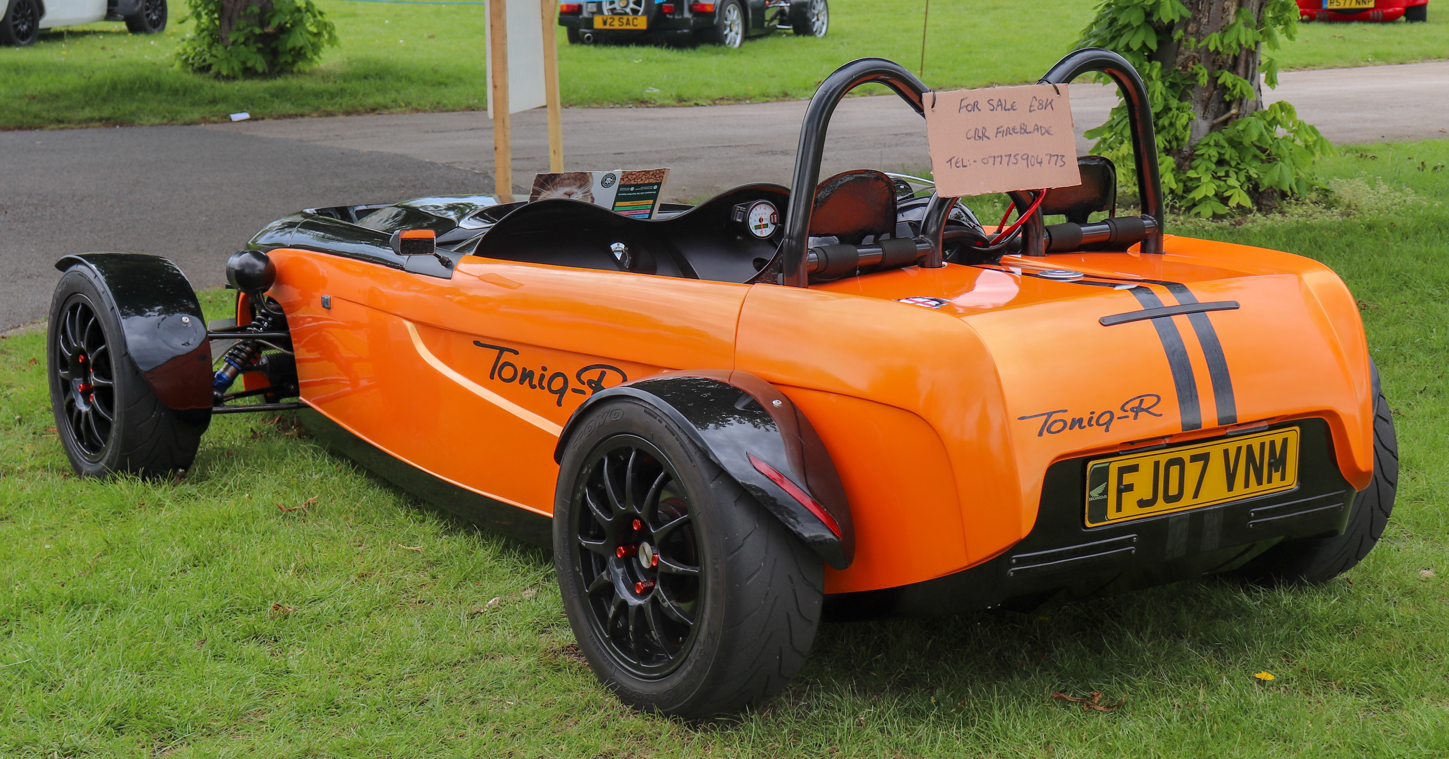 2007 Toniq-R 900cc Rear Taken at the Stoneleigh National Kit Car Motor Show 2019